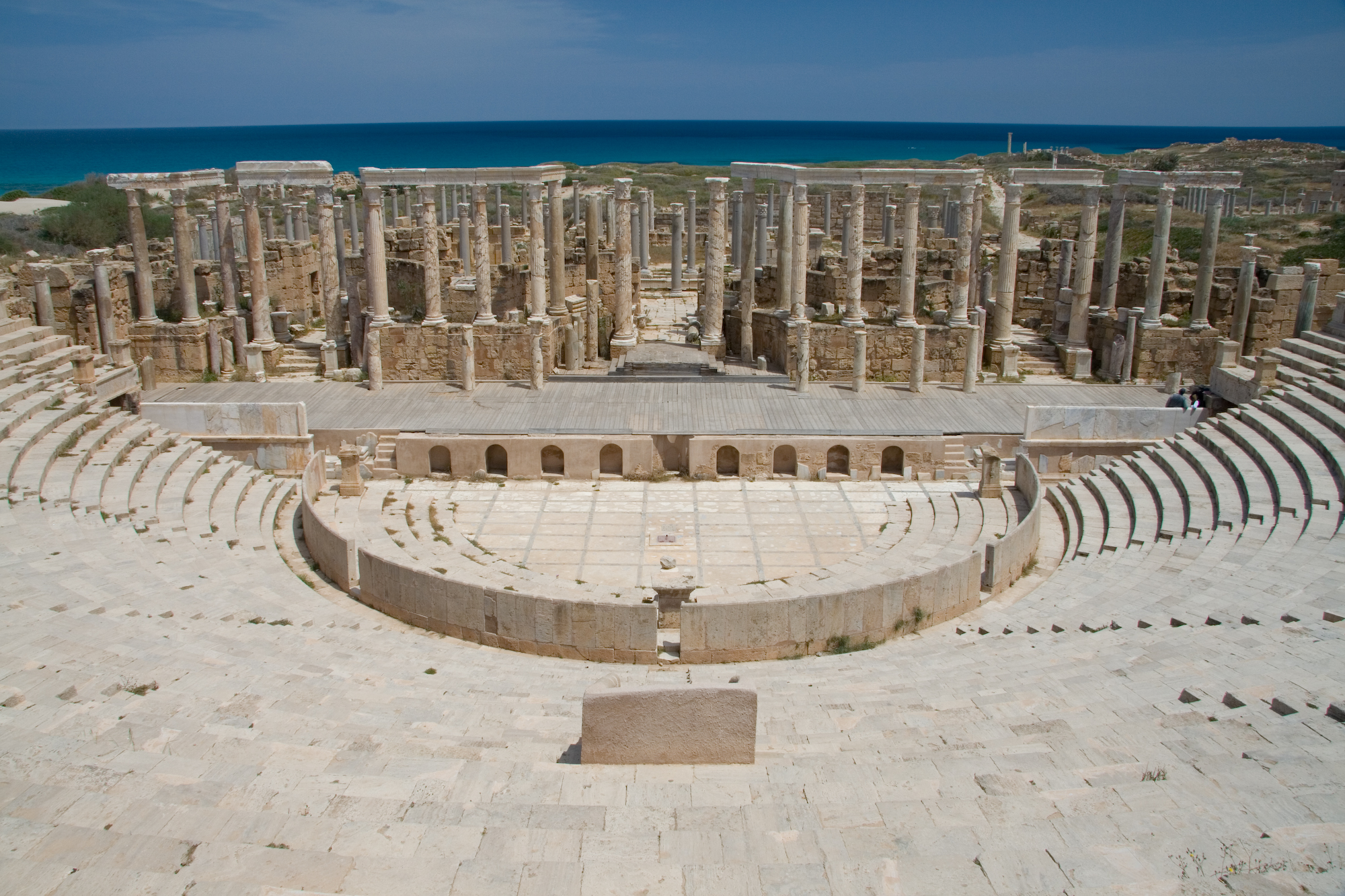 Theater of Leptis Magna (2nd century BC), the well preserved ancient city along the Mediterranean Sea, located 120 km Est of Tripoli, Libya.